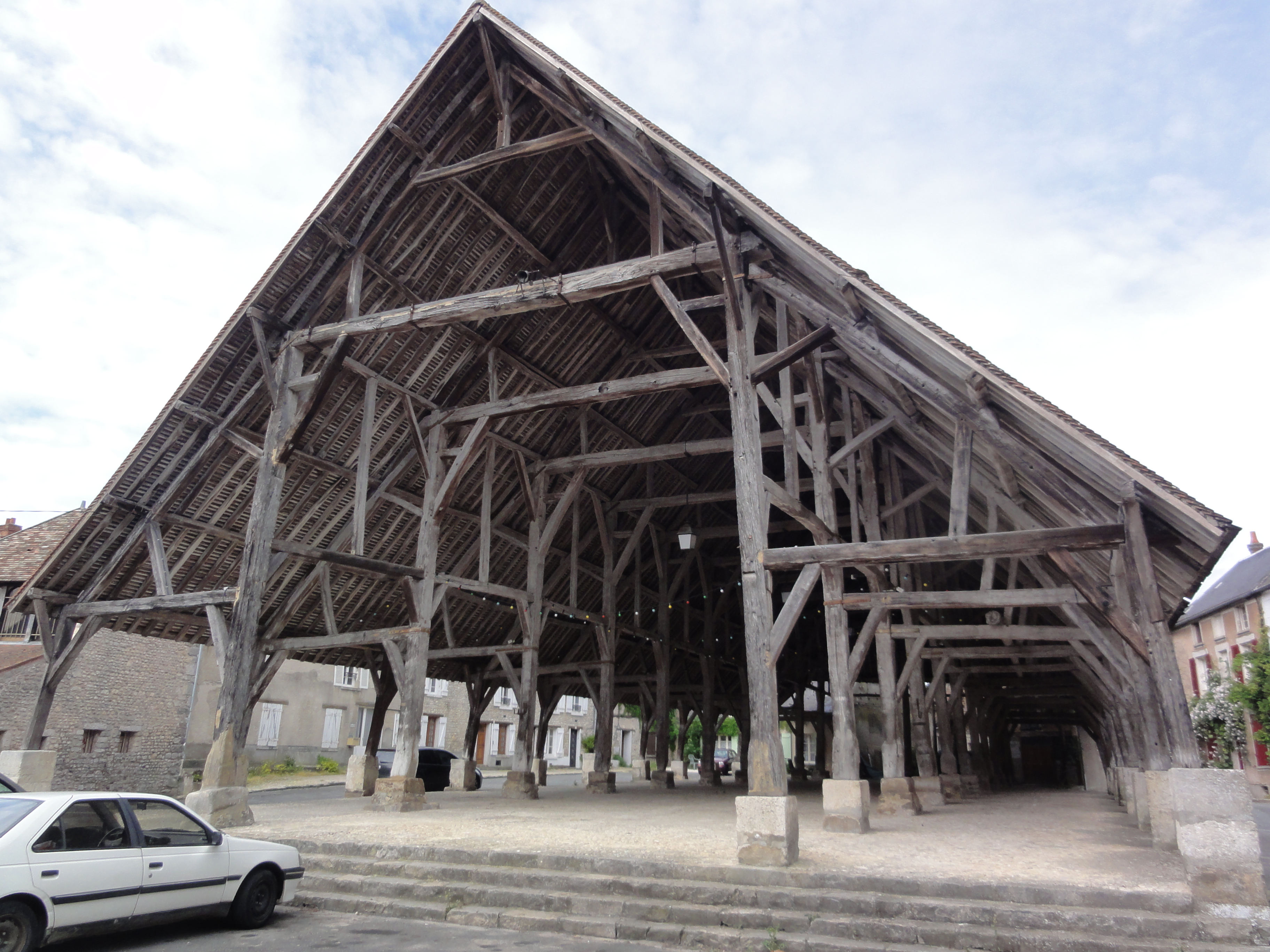 Méréville (Essonne) les Halles .